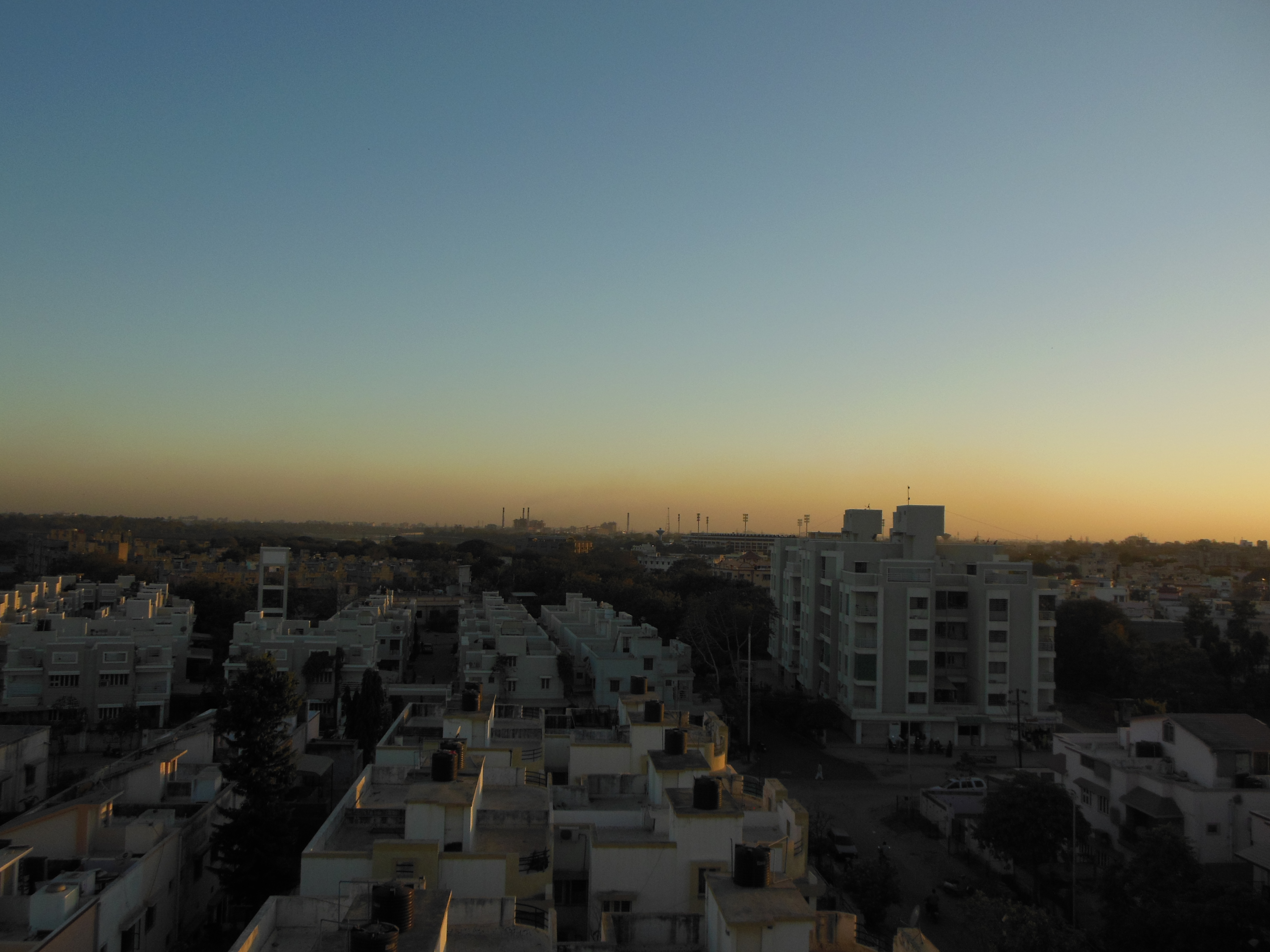 As you can see, it's a big (mostly residential) suburb, despite the presence of international cricket stadium, Subway, McDonald's, Dominos, CCD, Nike, Levi's, etc. nearby.